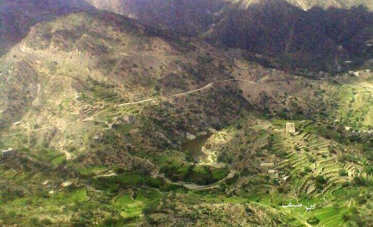 جبل البرقة - قفيل